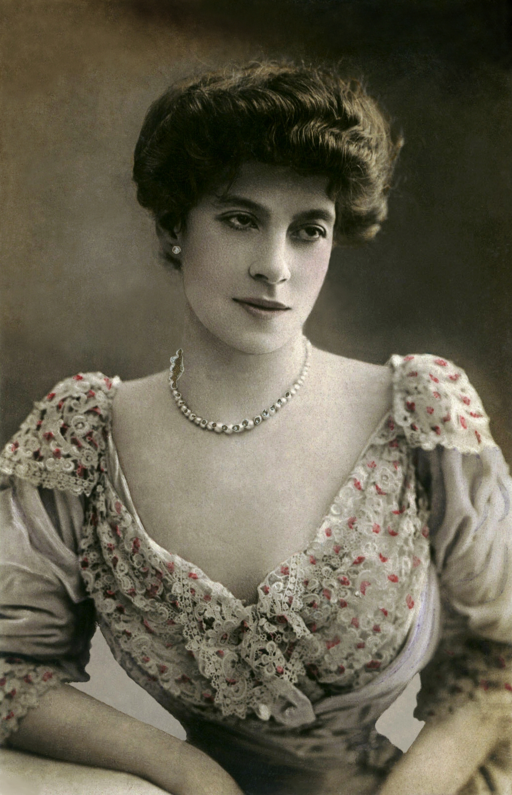 Marthe Brandès, French comedian, SIP 1342.